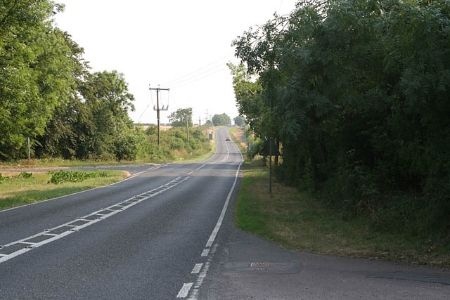 B6403 looking towards Colsterworth. Ermine Street, the Roman road from London to York, is also called High Dyke along this stretch.